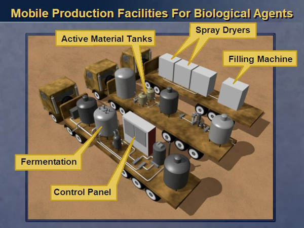 Colin Powell's UN presentation slide showing alleged mobile production facility for biological weapons. (Subequently shown to be an incorrect allegation.) Speech title: Remarks to the United Nations Security Council, Secretary Colin L. Powell, February 5, 2003 Slide title: detail of where material is carried in mobile production facilities for bio weapons work